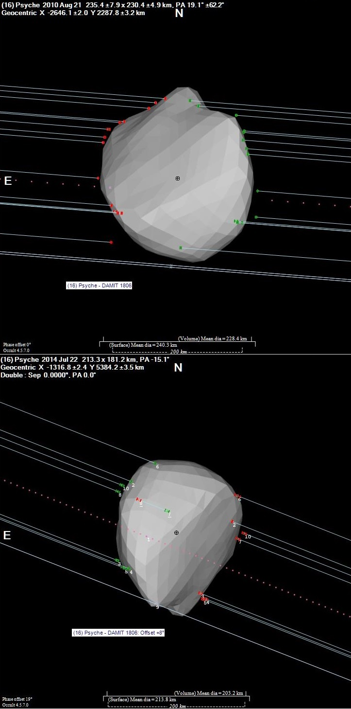 Occultation chords from two stellar occultation events of 2010 and 2014 indicate that DAMIT model 1806 is a good representation of the asteroid.